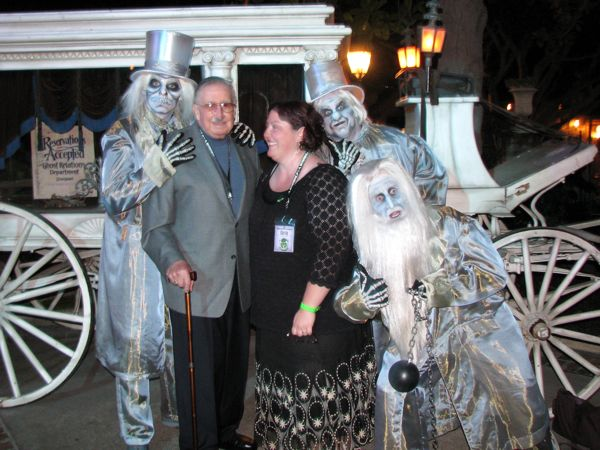 Disney animator and "Imagineer" X Atencio (second from left), with Carrie Vines of the Haunted Mansion Collectibles blog, at Disneyland's Haunted Mansion for the 10th anniversary event, February 25, 2008.